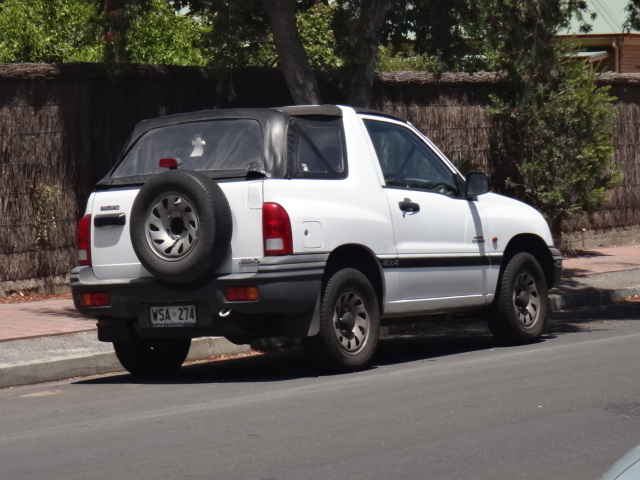 Along with a new model, also came with a new name, where all Vitara's became Grand Vitara's. The opposite happened with this newer model compare to the previous generation, where the 2dr Hardtop and 2dr Soft Tops weren't as popular as the 5dr Wagons. This is rare, I haven't seen a 2dr Soft Top in this generation for a very long time.